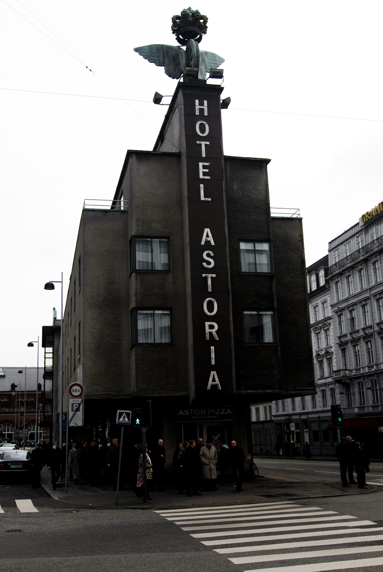 Hotel Astoria. This photo was uploaded as a part of an conceptual idea: FindVej NoPic.